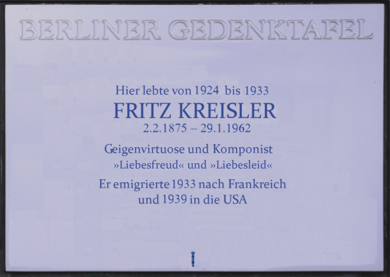 Berlin memorial plaque, Fritz Kreisler, Bismarckallee 32a, Berlin-Grunewald, Germany